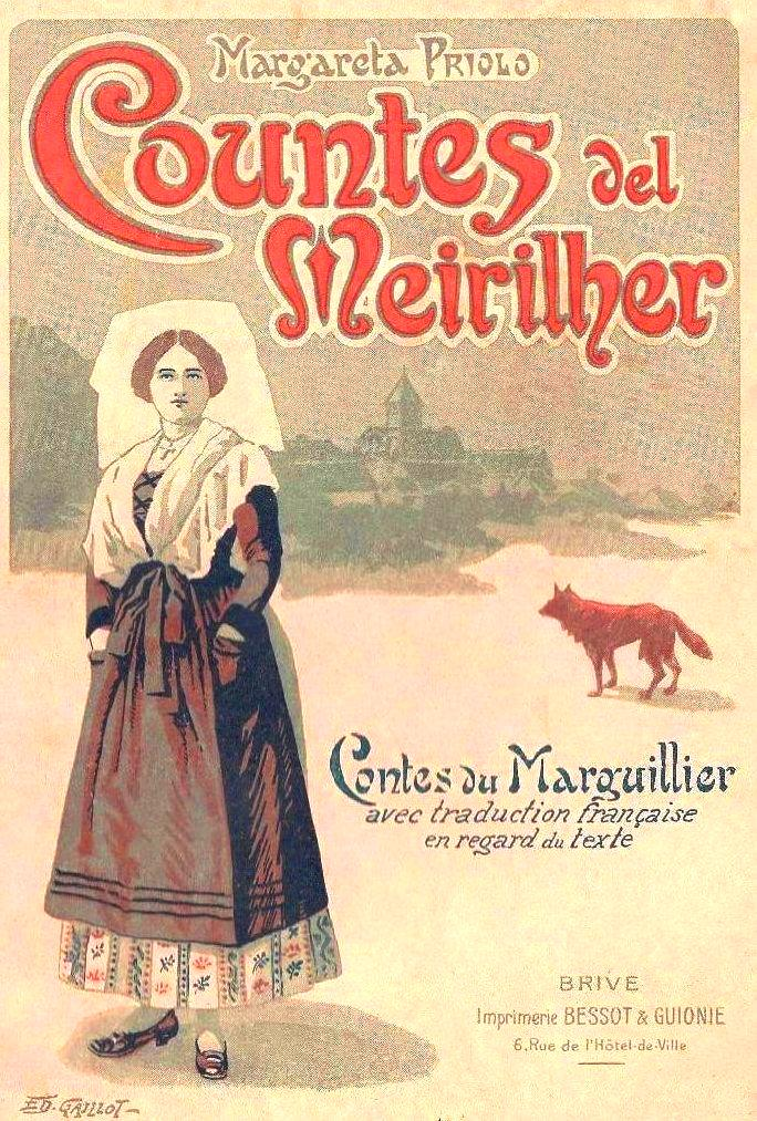 Coverpage of Contes del Mairilhièr